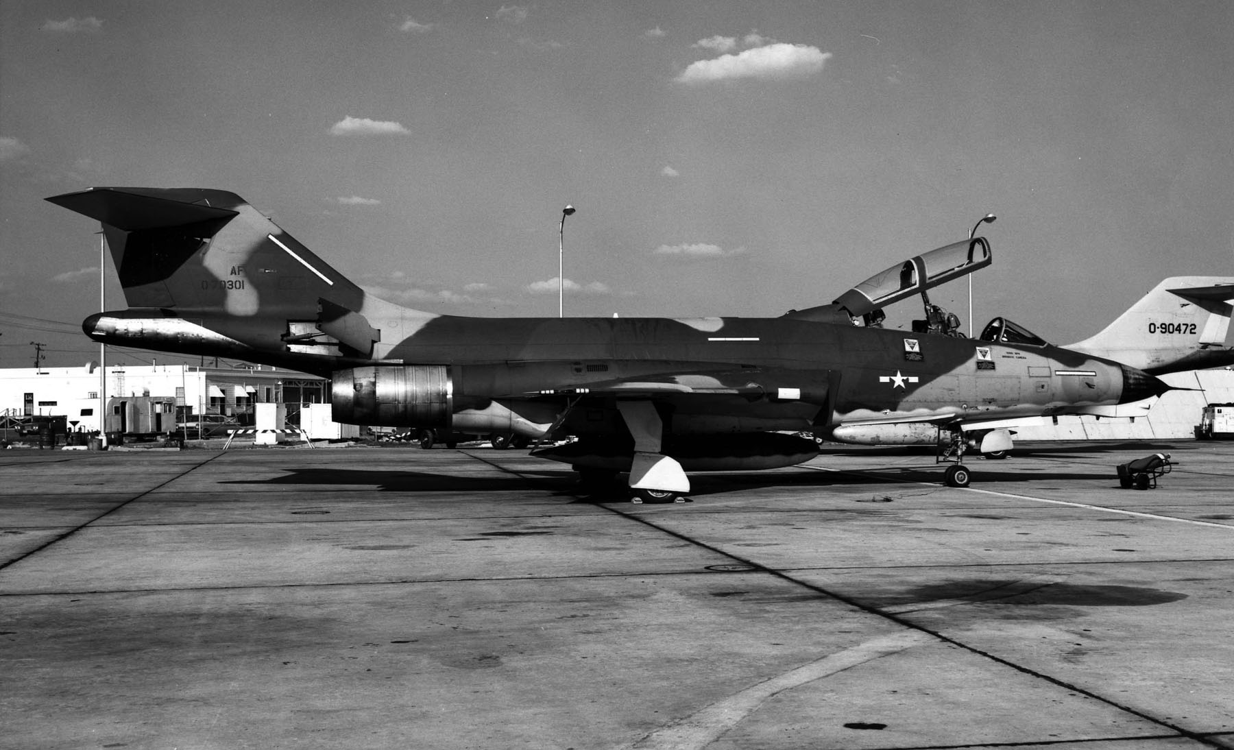 A U.S. Air Force McDonnell RF-101B Voodoo. This aircraft was originally produced as an F-101B-85-MC (s/n 57-0301). This airframe was the prototype RF-101B and was the only RF-101B that did not originally serve in Canada as a CF-101B. 22 CF-101Bs were modified by the Ling-Temco-Vought in 1971-72. The armament and fire control system in the nose of the F-101B were replaced by forward and vertical cameras in a midified nose, three KS-87B cameras, and two AXQ-2 television cameras. The RF-101B was costly to operate and served only with the 192nd Tactical Reconnaissance Squadron of the Nevada Air National Guard from 1972 to 1975. In the background is the former Canadian F-101F-116-MC s/n 59-0472.